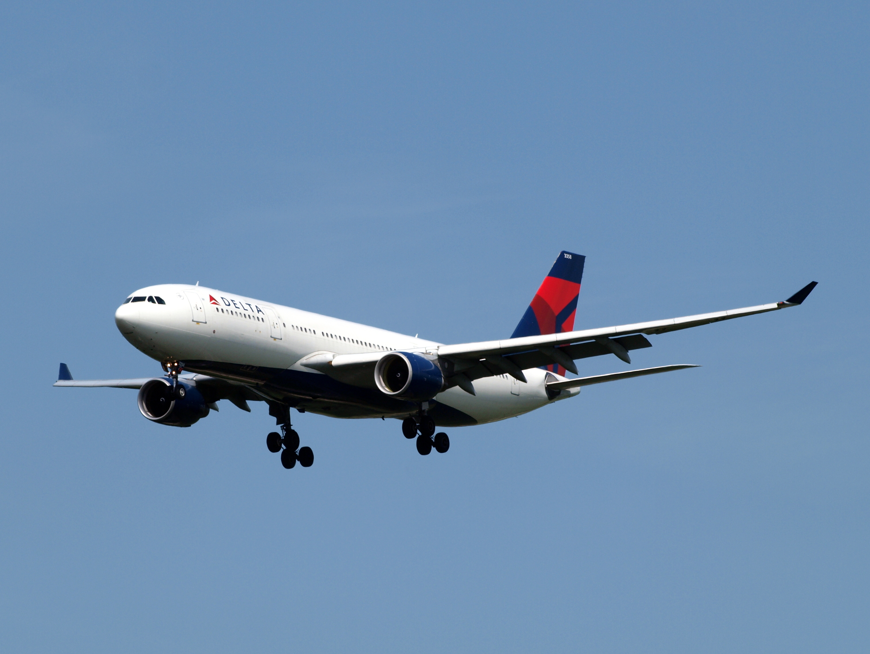 Photographed at Amsterdam airport Schiphol, the Netherlands.